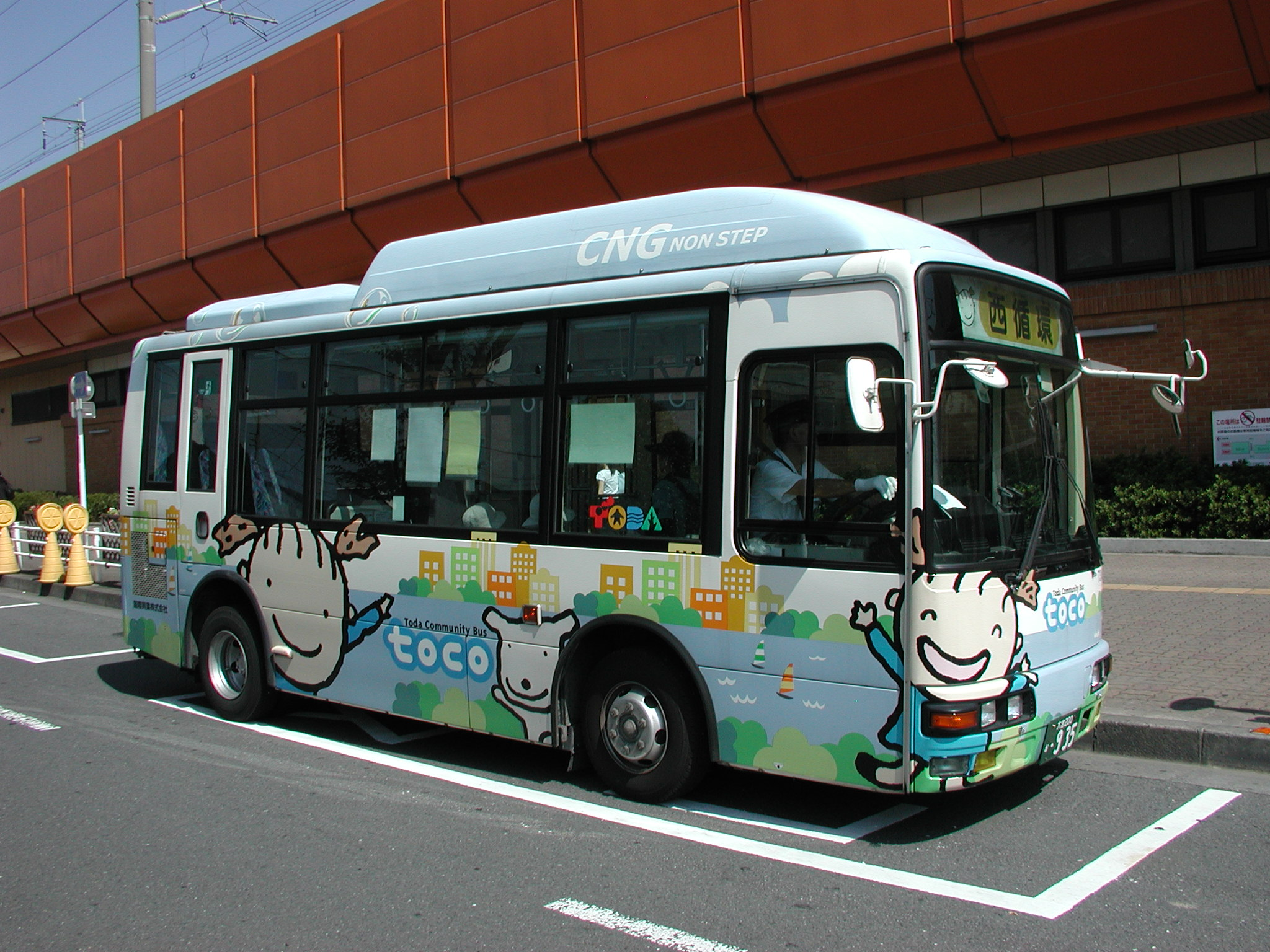 Community bus in front of Toda Station in Toda, Saitama Prefecture, Japan